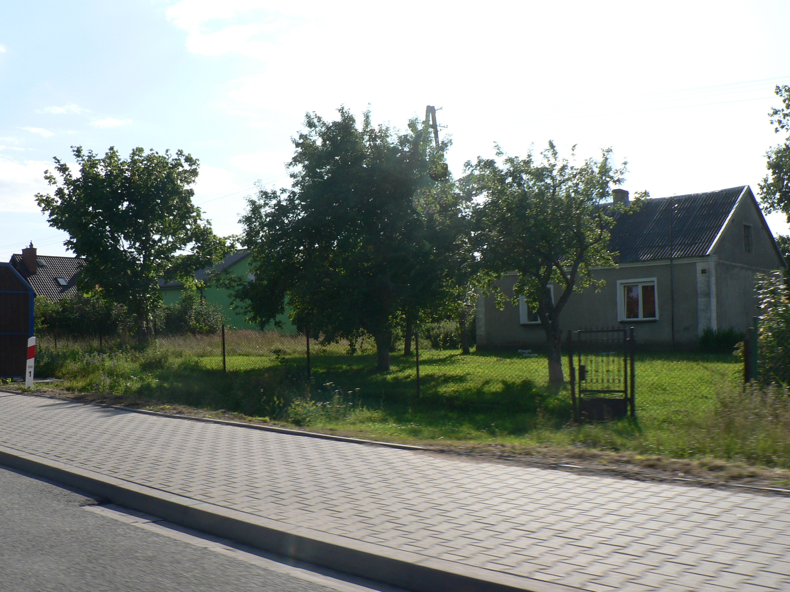 Uniszki Zawadzkie near Mława